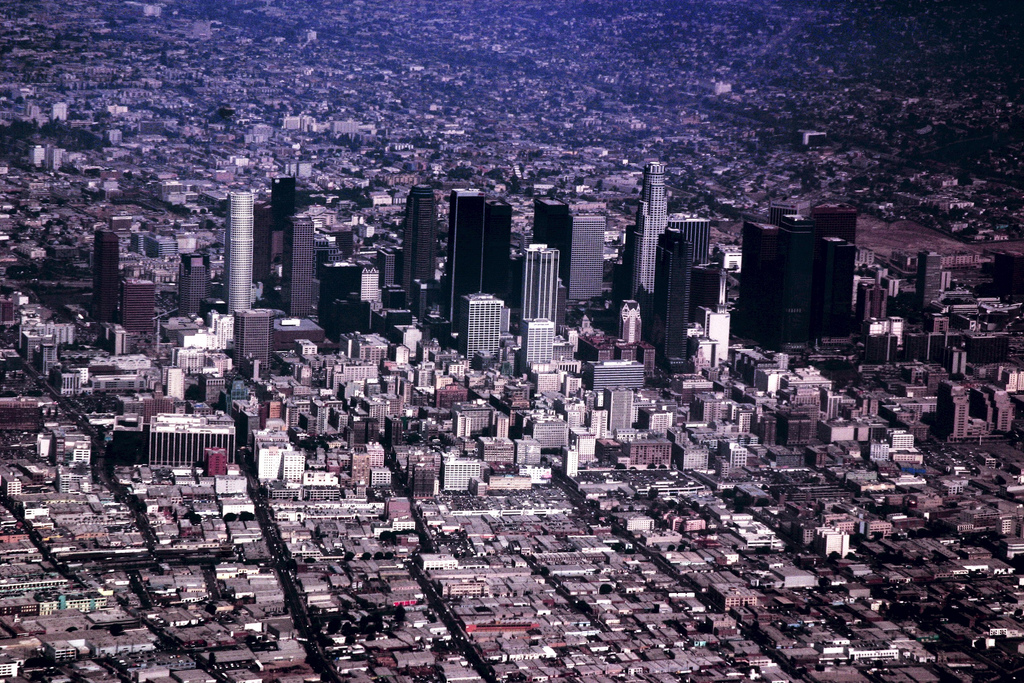 An aerial photo of Downtown Los Angeles, Southern California. (POSTED: June 28, 2009 This image is now available under a Creative Commons License. )